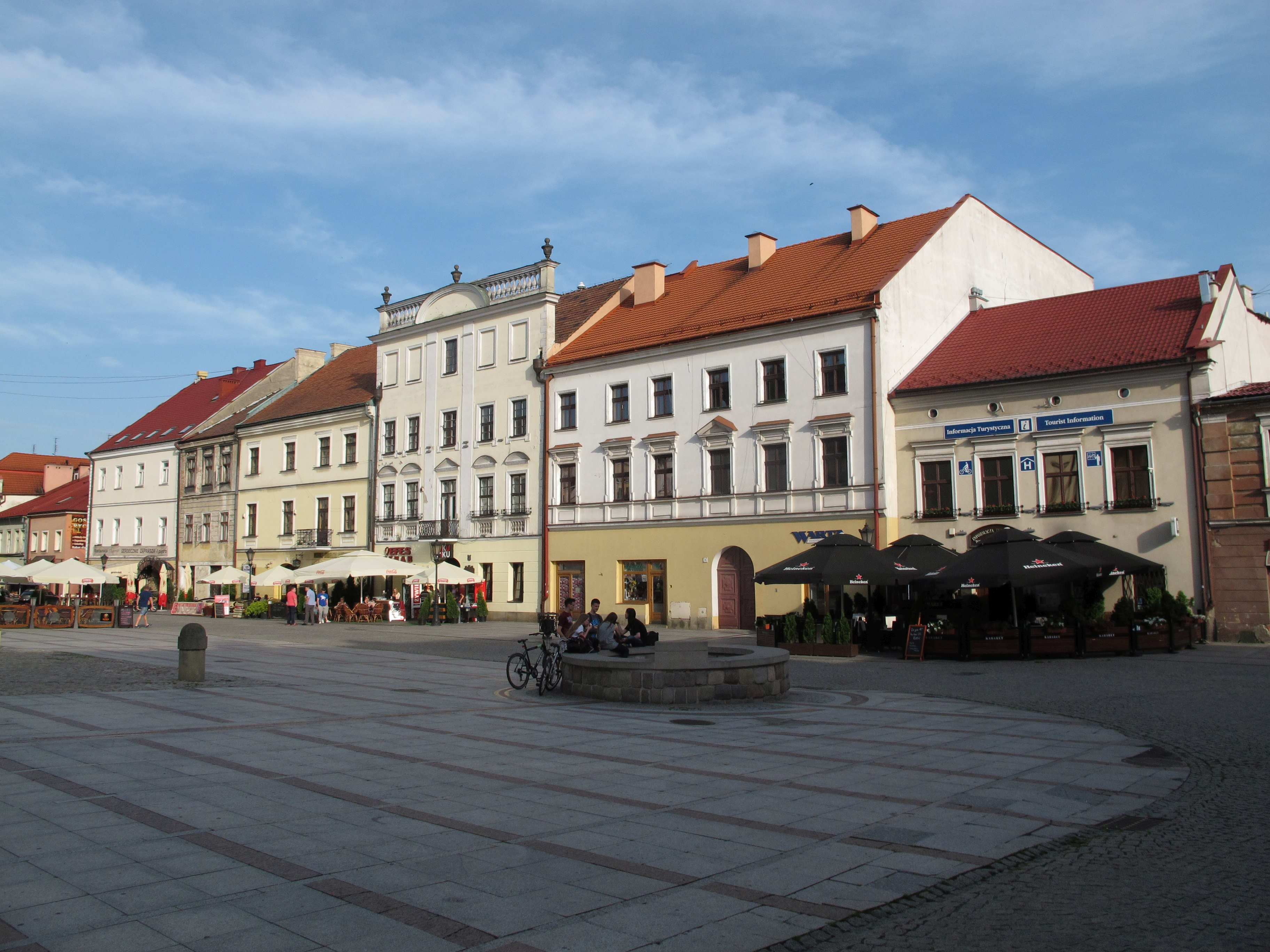 Tarnów - houses in the Market Square